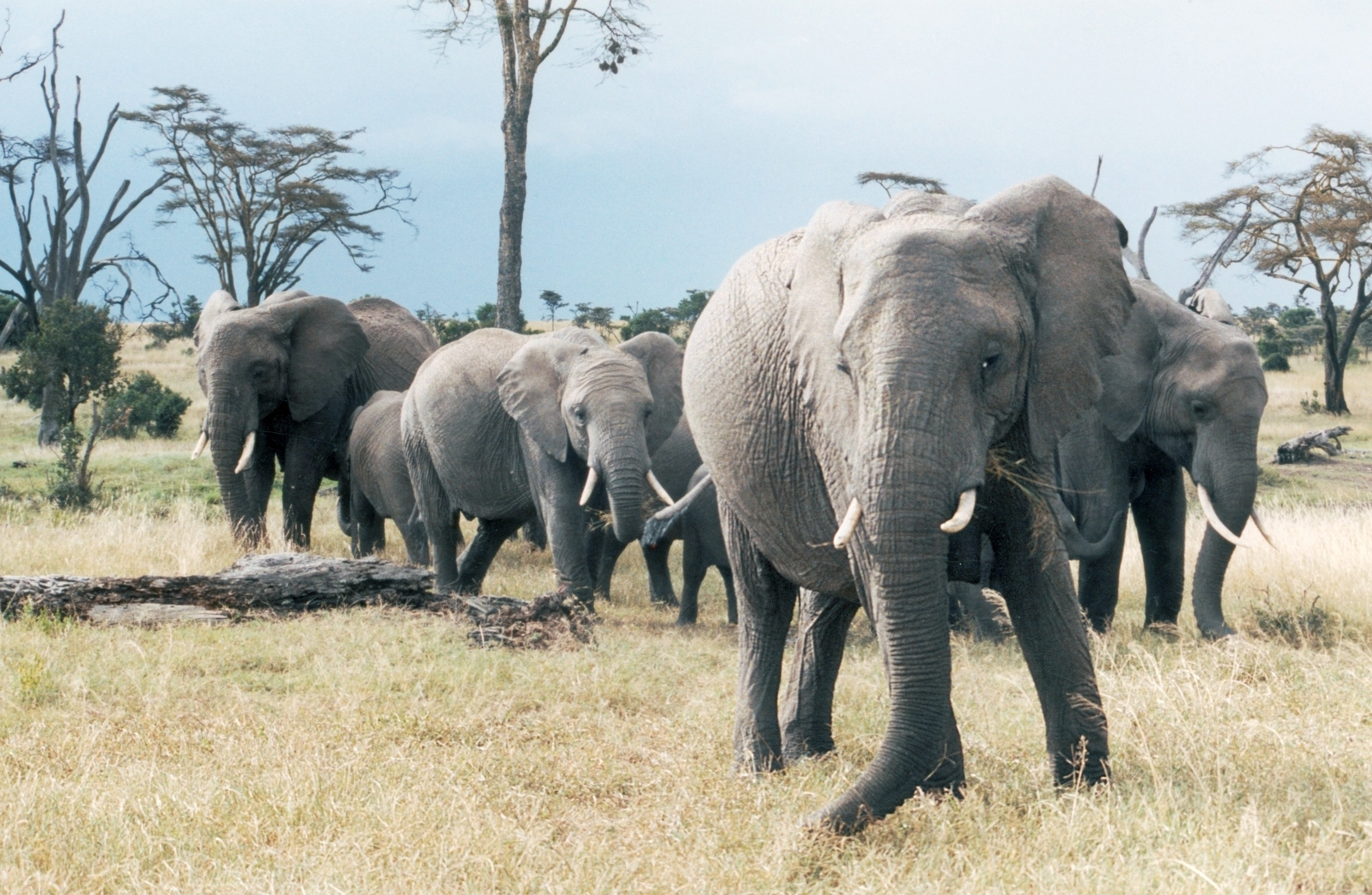 A herd of African elephants in Sweetwaters Tented Camp, Kenya